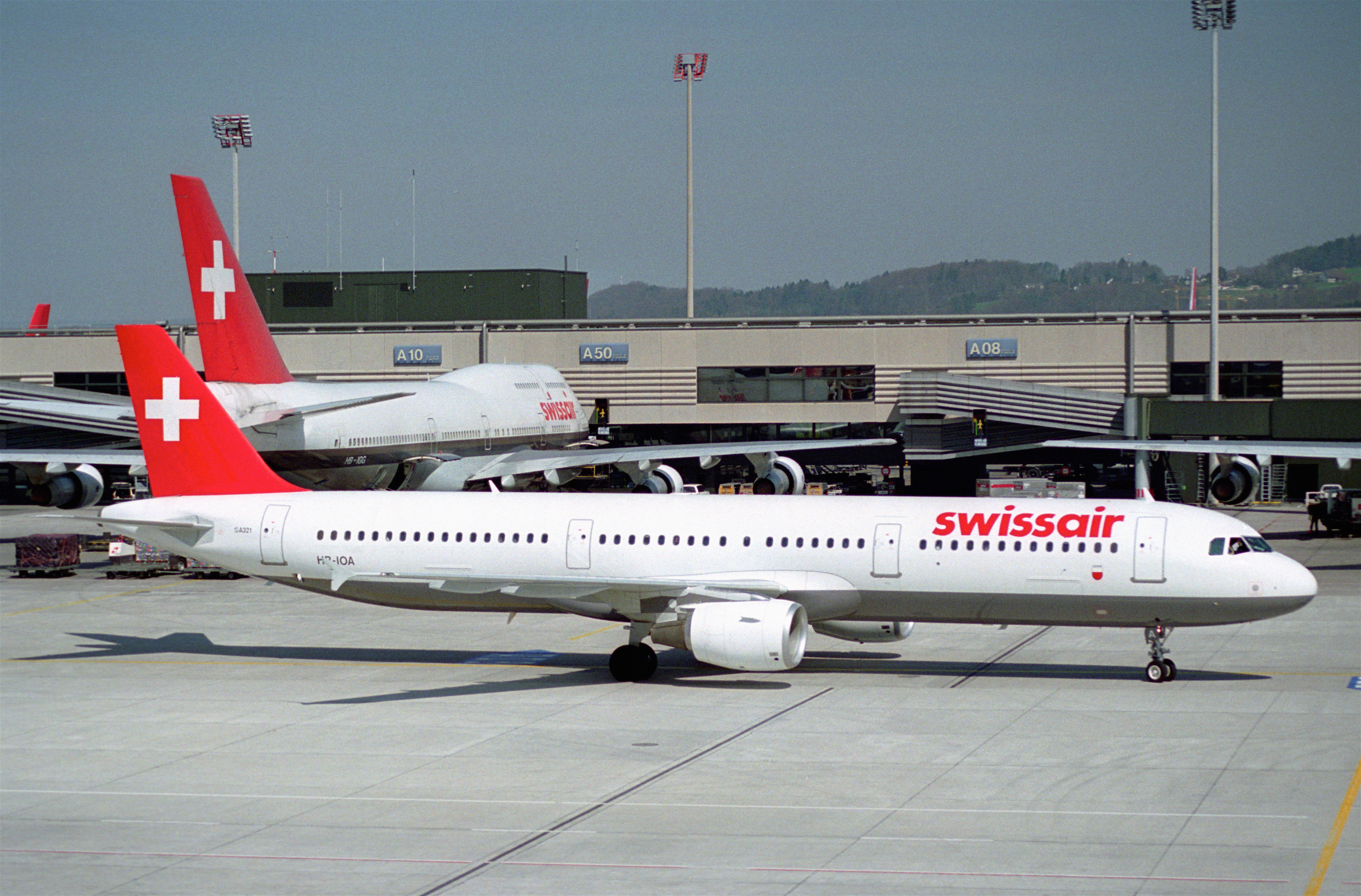 Swissair's first and then-brandnew Airbus A321 taxiing to its gate at Zürich-Kloten (with a 747 in the back)...